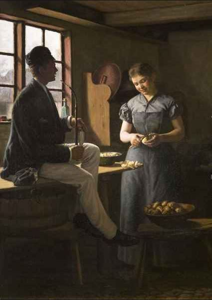 Flirting in the Kitchen (slightly cropped)